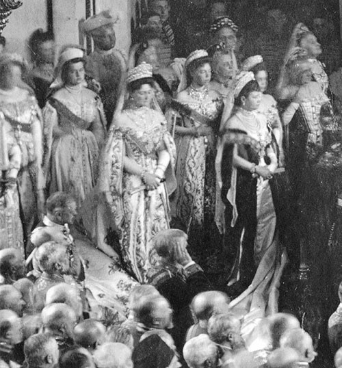 Empress Alexandra Feodorovna (Alice of Hesse-Darmstadt), dowager empress Maria Feodorovna and grand duchesses Olga and Xenia Alexandrovna at the opening of the first State Duma in 1906